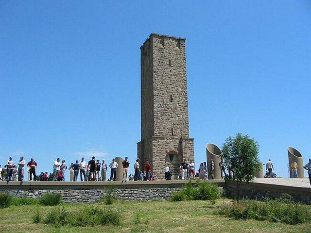 Inscription of the curse on the Gazimestan monument. Monument at Gazimestan. Gazimestan monument. Kosovo Polje.